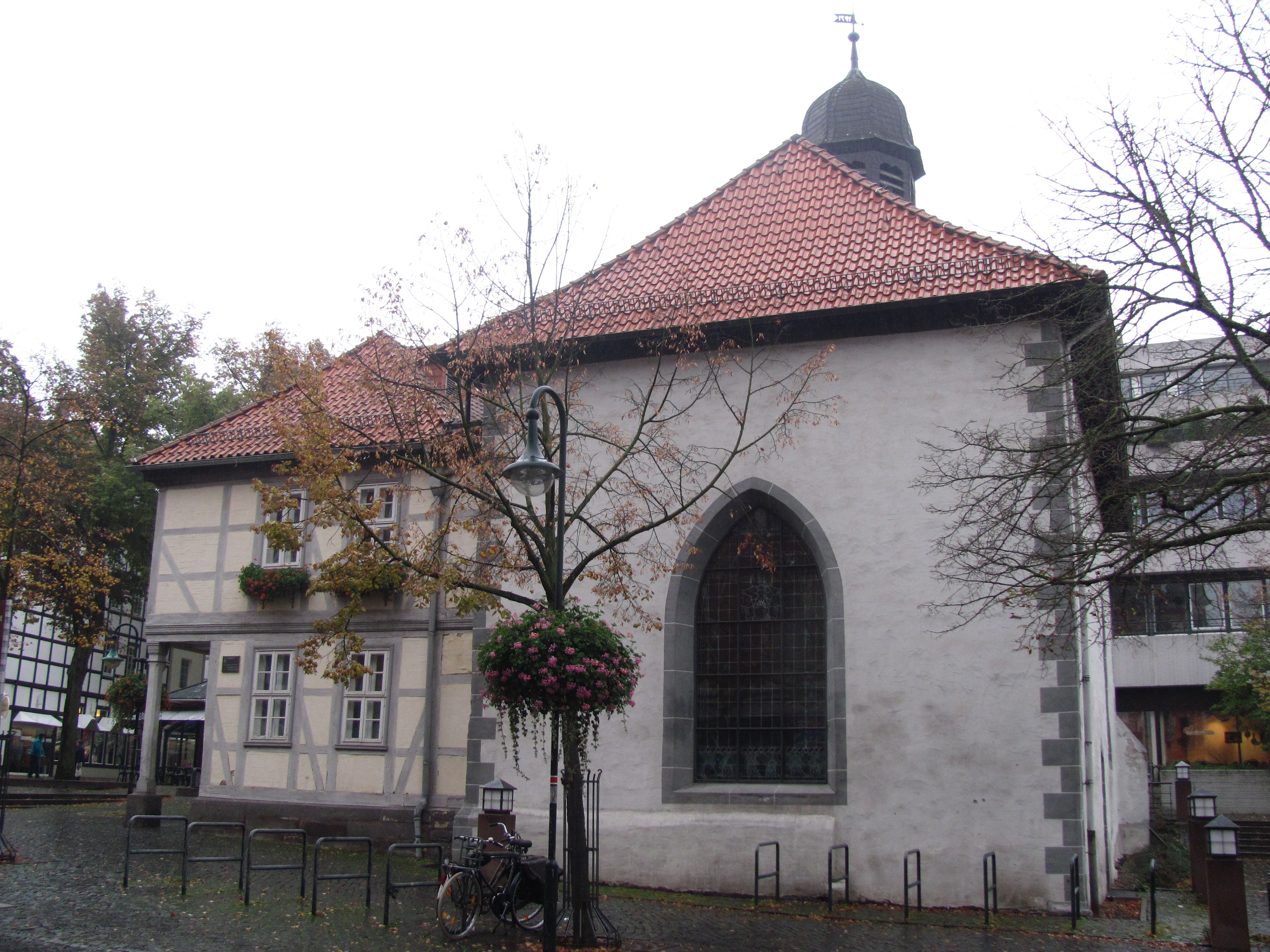 Saint Fabian's and Sebastian's Chapel, Northeim, Lower Saxony, Germany